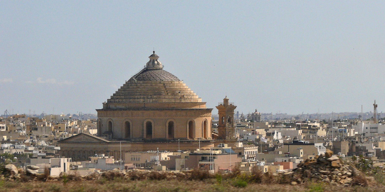 The Mosta Dome